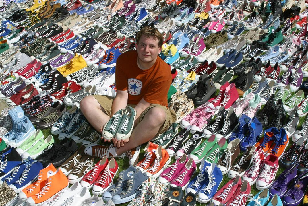 Joshua Mueller, world record holder for the largest collection of Converse shoes sitting among his collection.